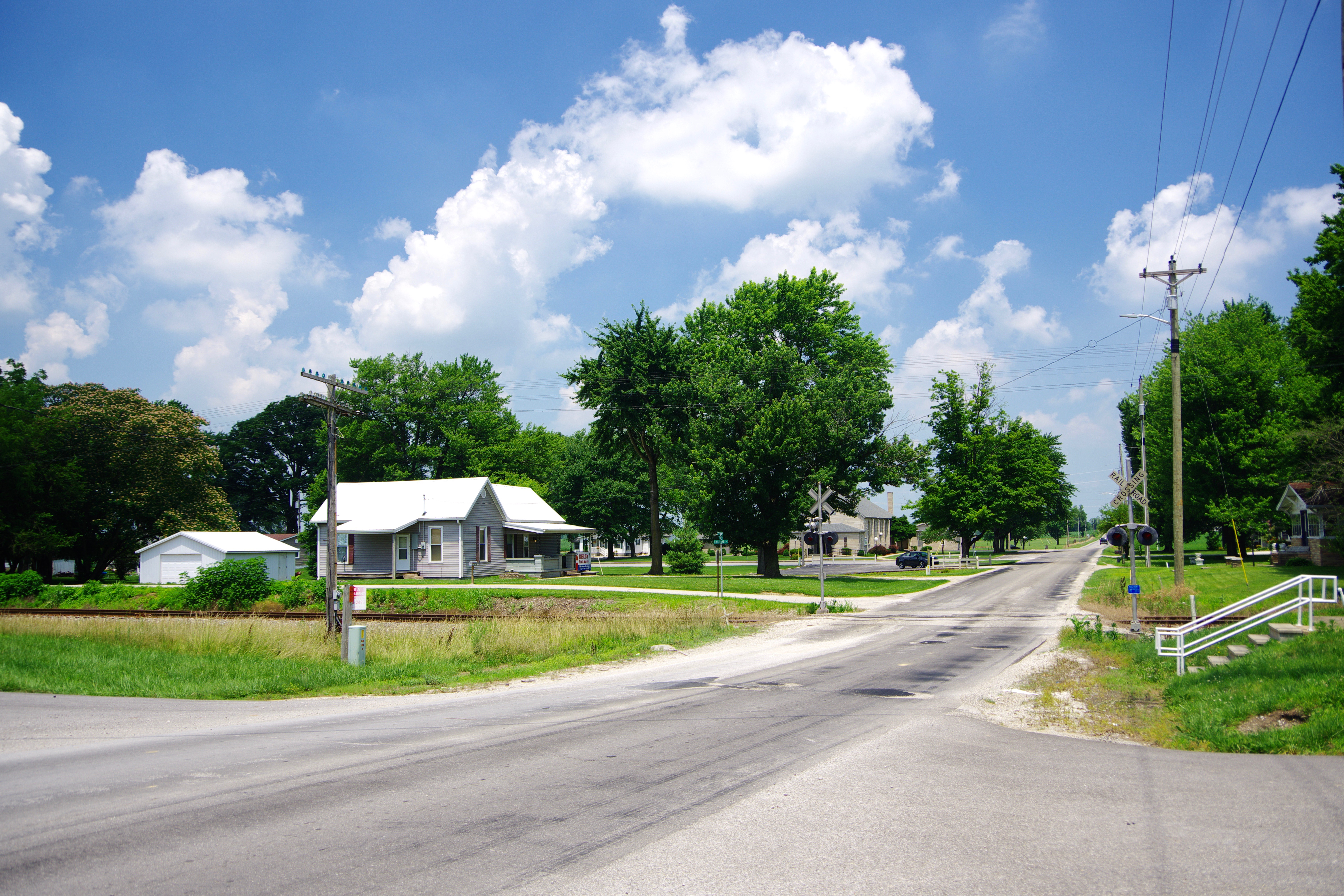 View along Main Street in Cannelburg, Indiana, United States.